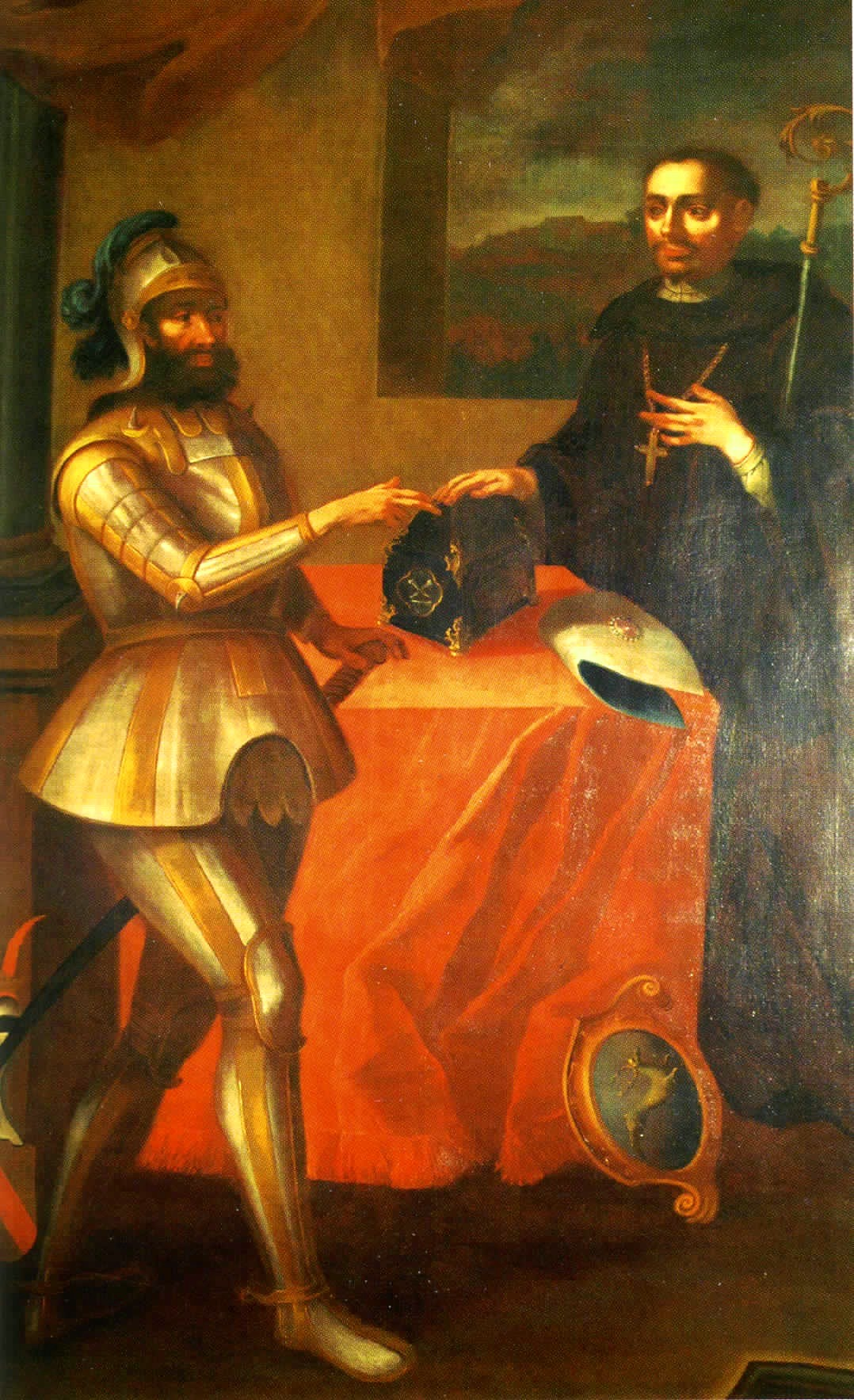 Painting in the stairway of the mansion "Schloss Bürgeln"; Werner von Kaltenbach (about 1120) handed over his gift to the abbot of the monastry of Saint Blasius